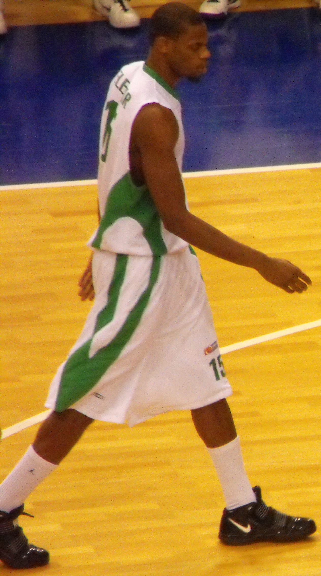 Bornova Belediye-Efes Pilsen game, Frank Elegar (#15)